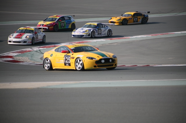 CRt team a Dubai